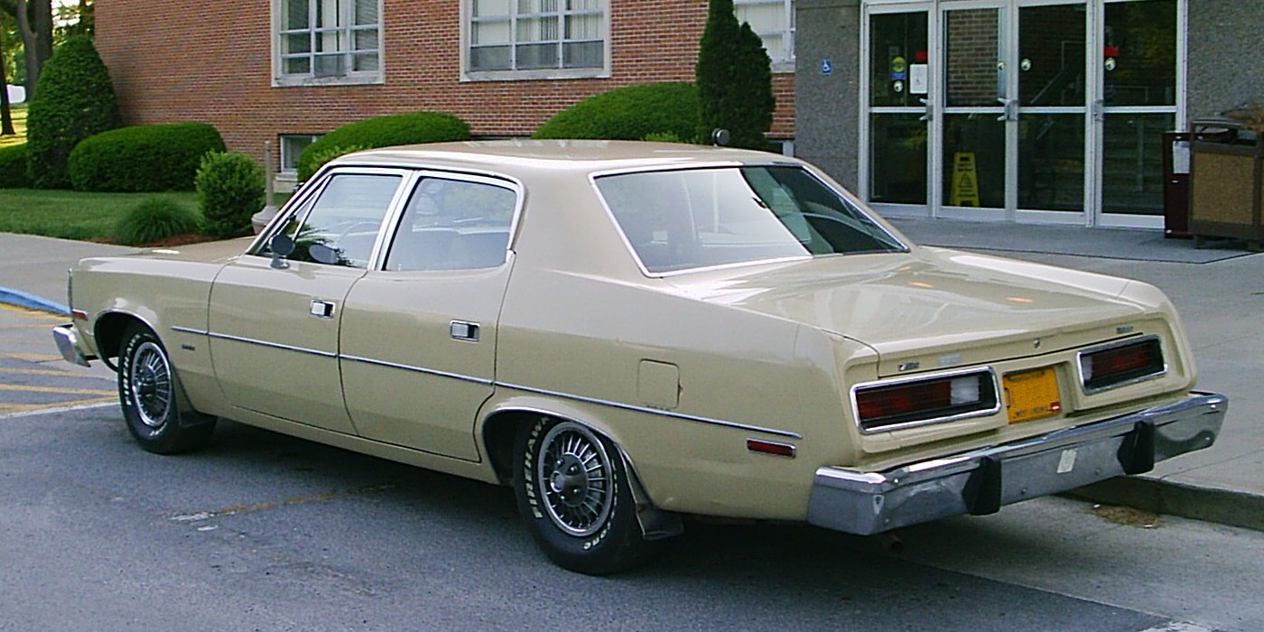 1975 AMC Matador - 4-door sedan - base model - made by American Motors Corporation (AMC). Note, it has AMC's late-1960s Turbocast wheel covers and more recent white letter tires. Finished in Fawn Beige (paint code: E6). Picture taken in front of the Student Center on the campus of Concord University in Athens, West Virginia.